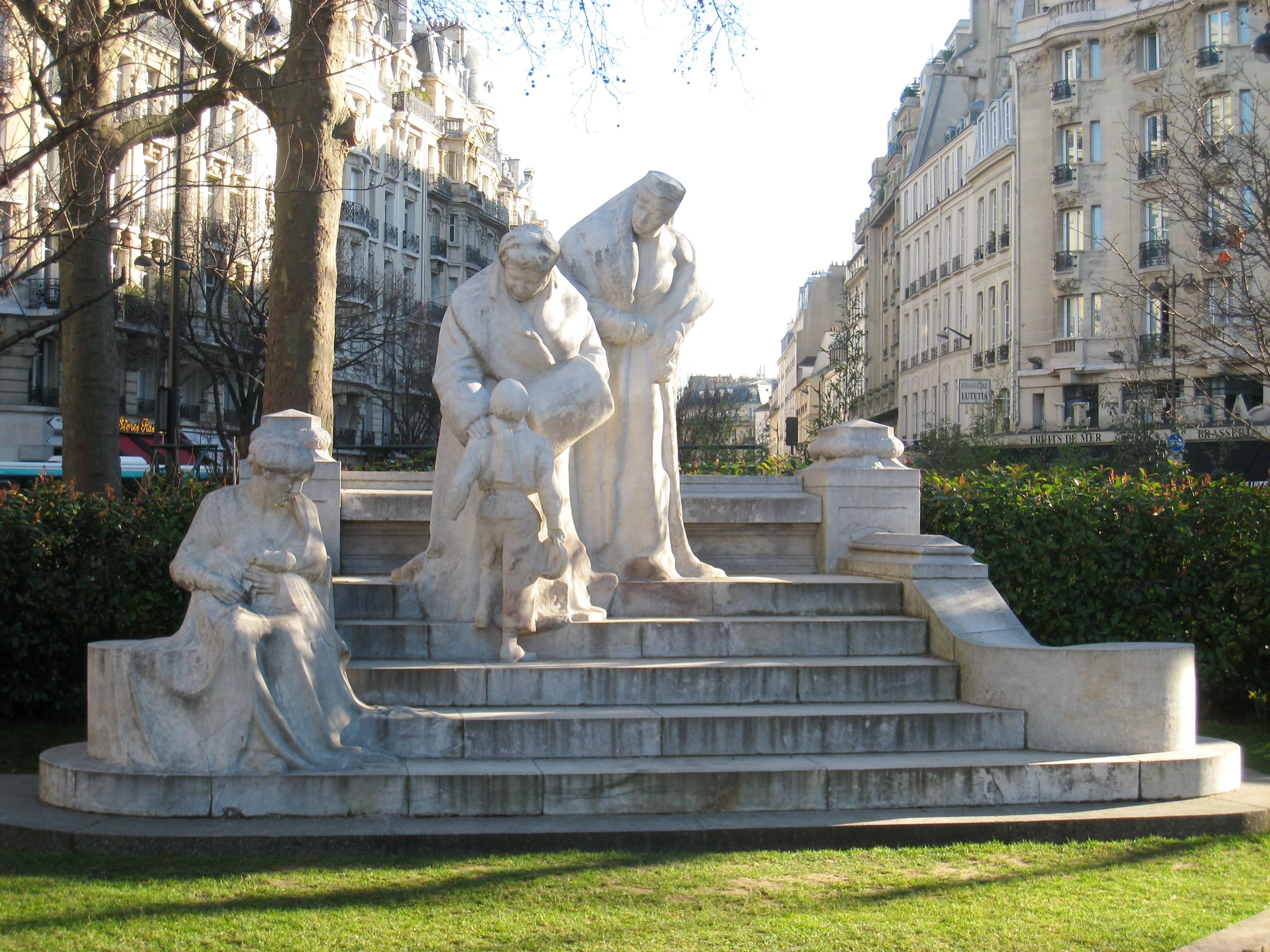 Memorial to Mme Boucicaut and Baroness Clara de Hirsh, honoring their charitable work, in the Square Boucicaut, Paris, France. Sculptor Paul Moreau-Vauthier (1871-1936); dedicated in 1914. Note that copyright (if any) has expired since the sculptor died more than 70 years ago.